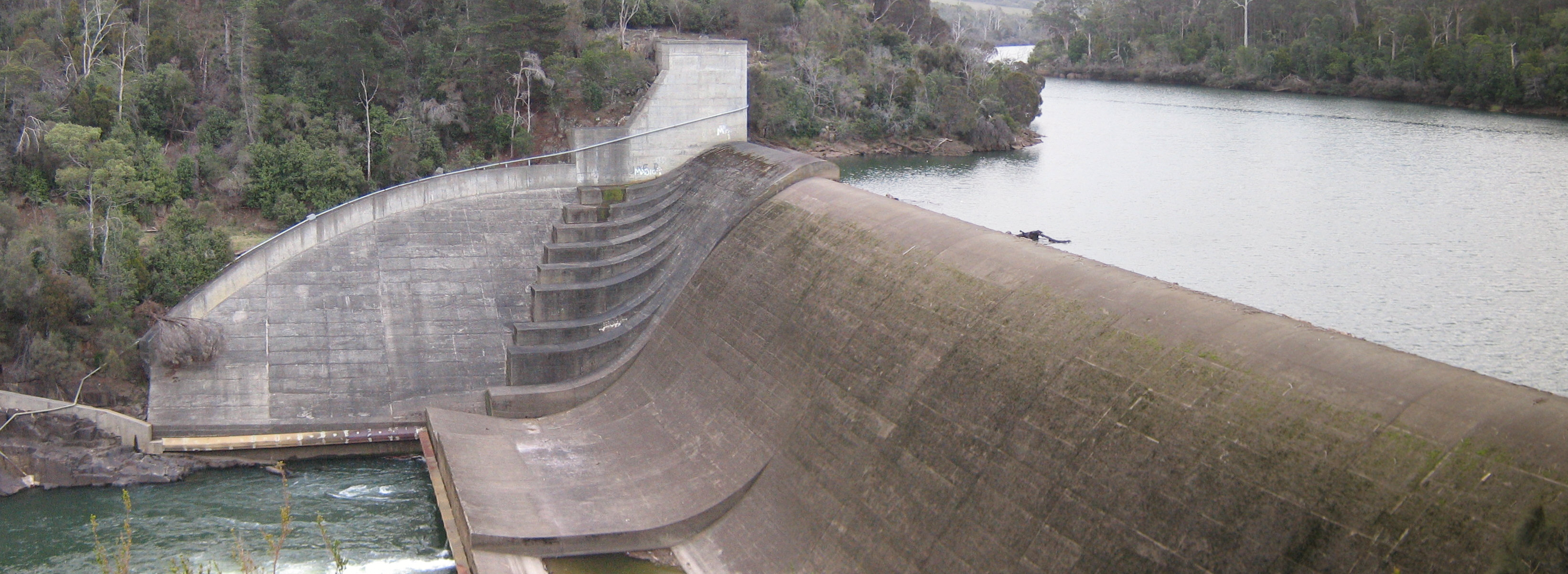 Trevallyn Dam near Launceston, Tasmania